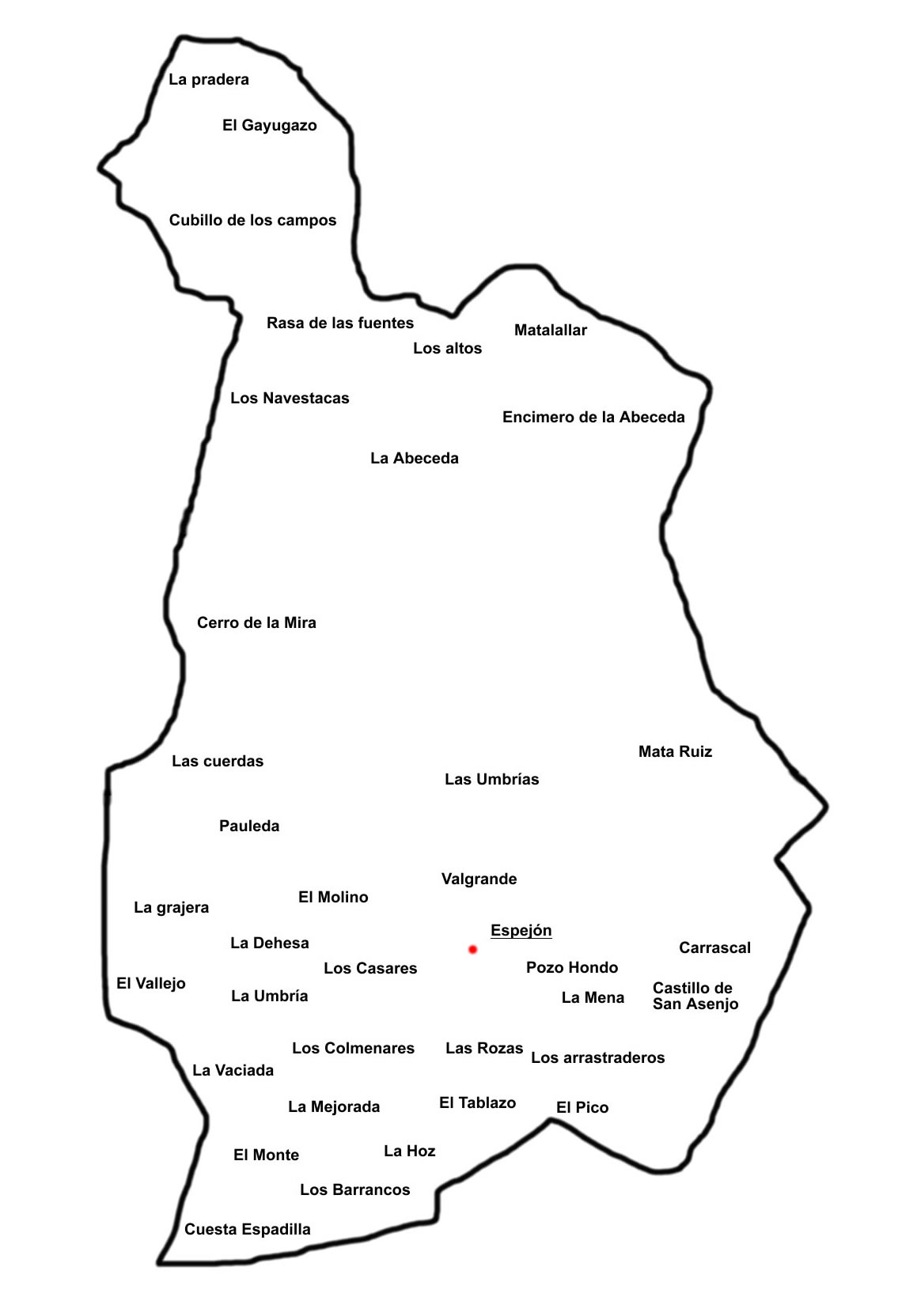 Map of different areas Espejón (Soria)